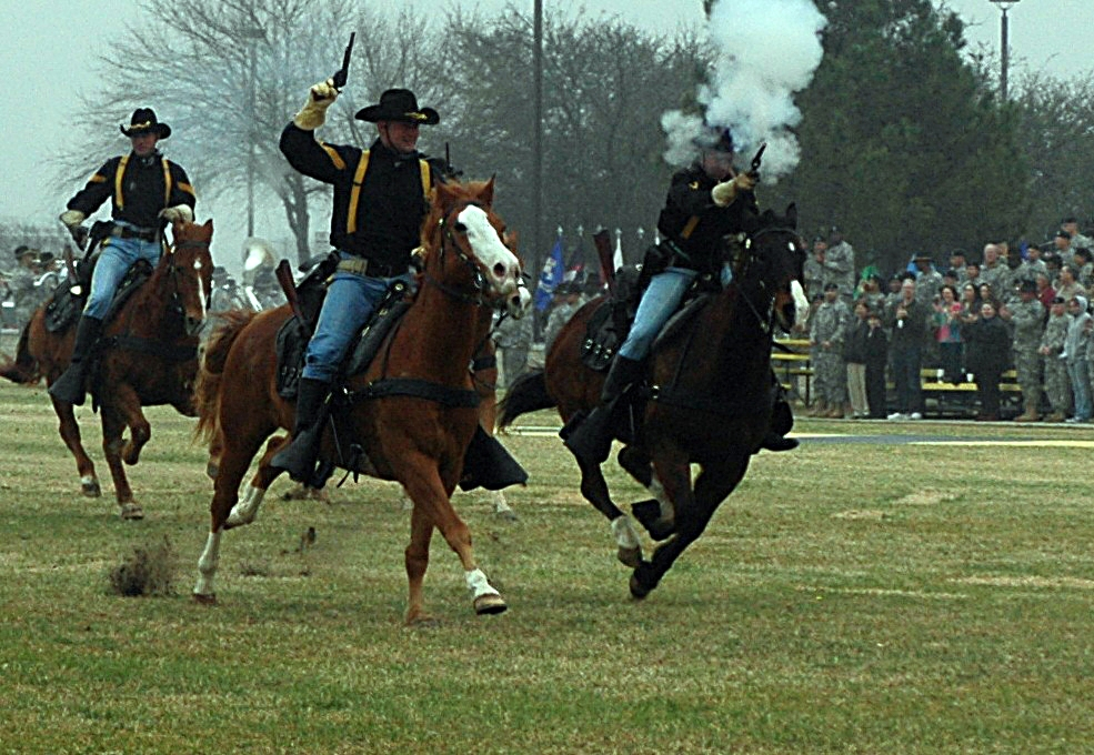 Cavalry troopers from 1st Cavalry Division's Horse Cavalry Detachment charge across Cooper Field